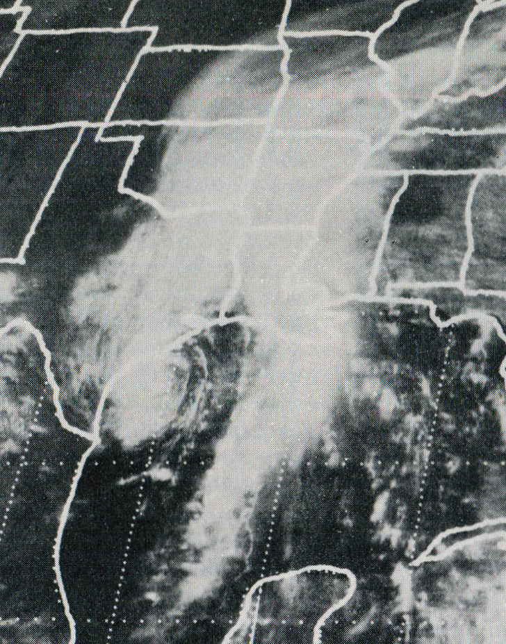 This weather satellite image of Tropical Storm Delia was taken on September 5, 1973 at 1700 UTC